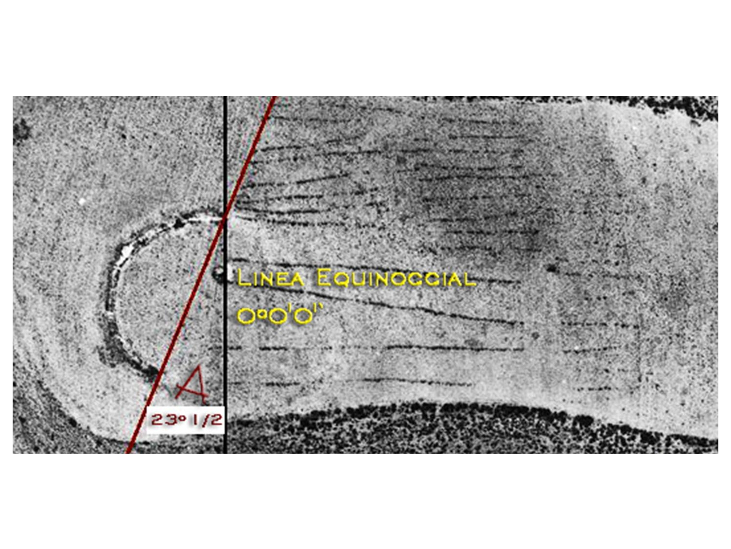 Aerial view of Catequilla Site with Equator Line